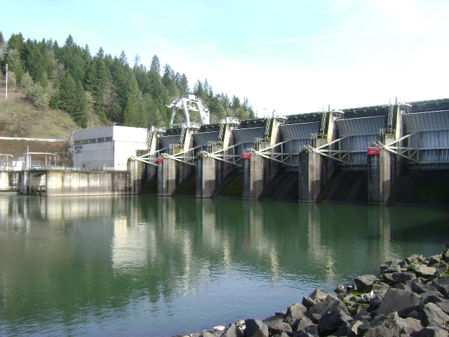 The mechanical section of Dexter Dam